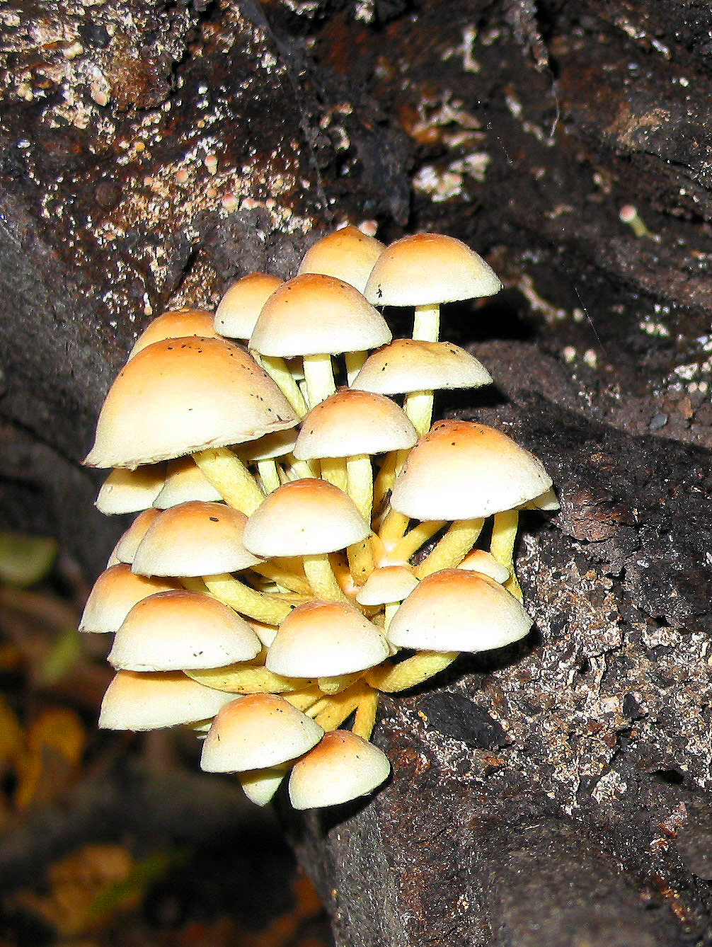 Sulphur Tuft, Havré, Belgium